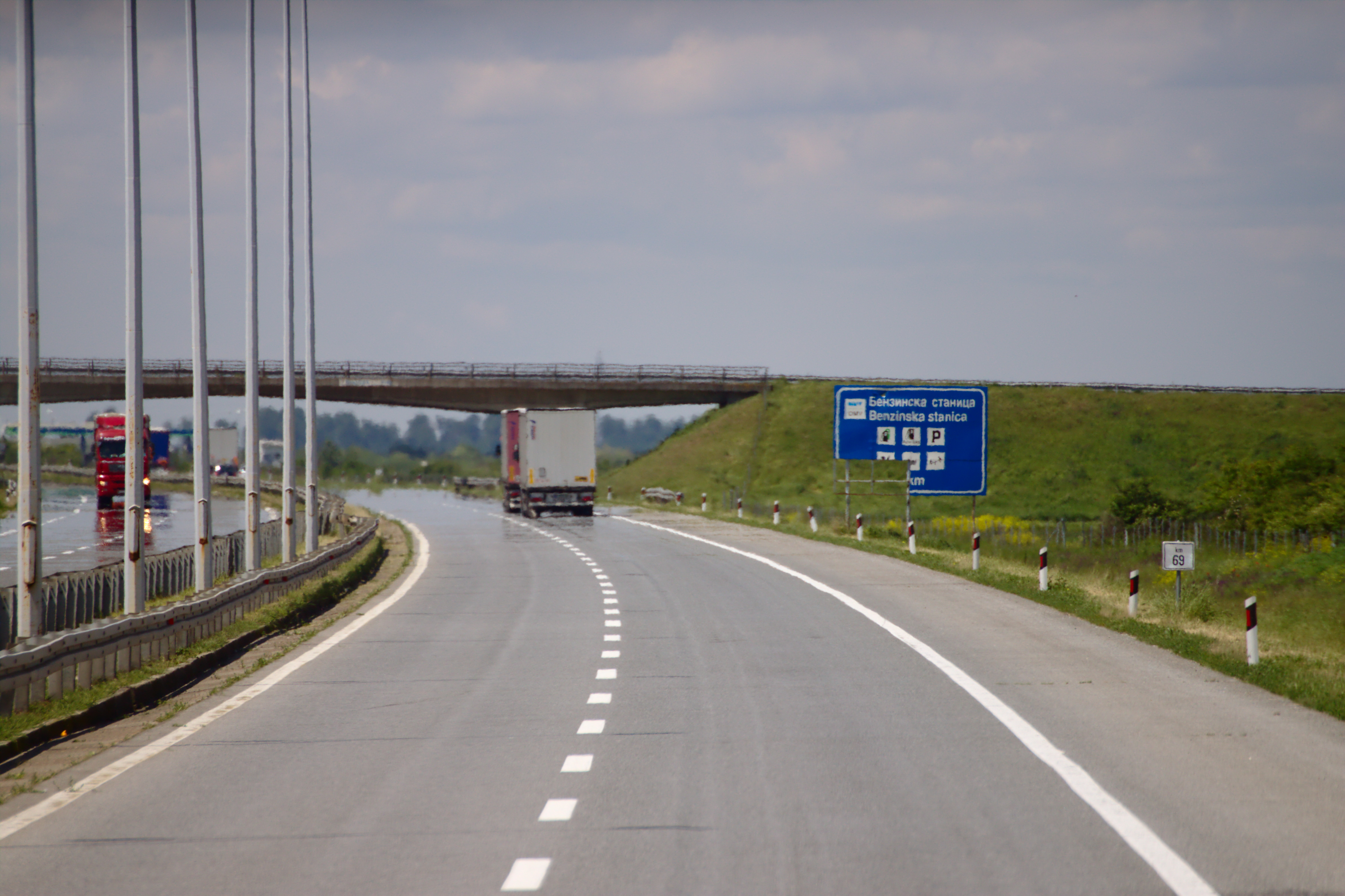 Belgrade-Šid highway in Serbia